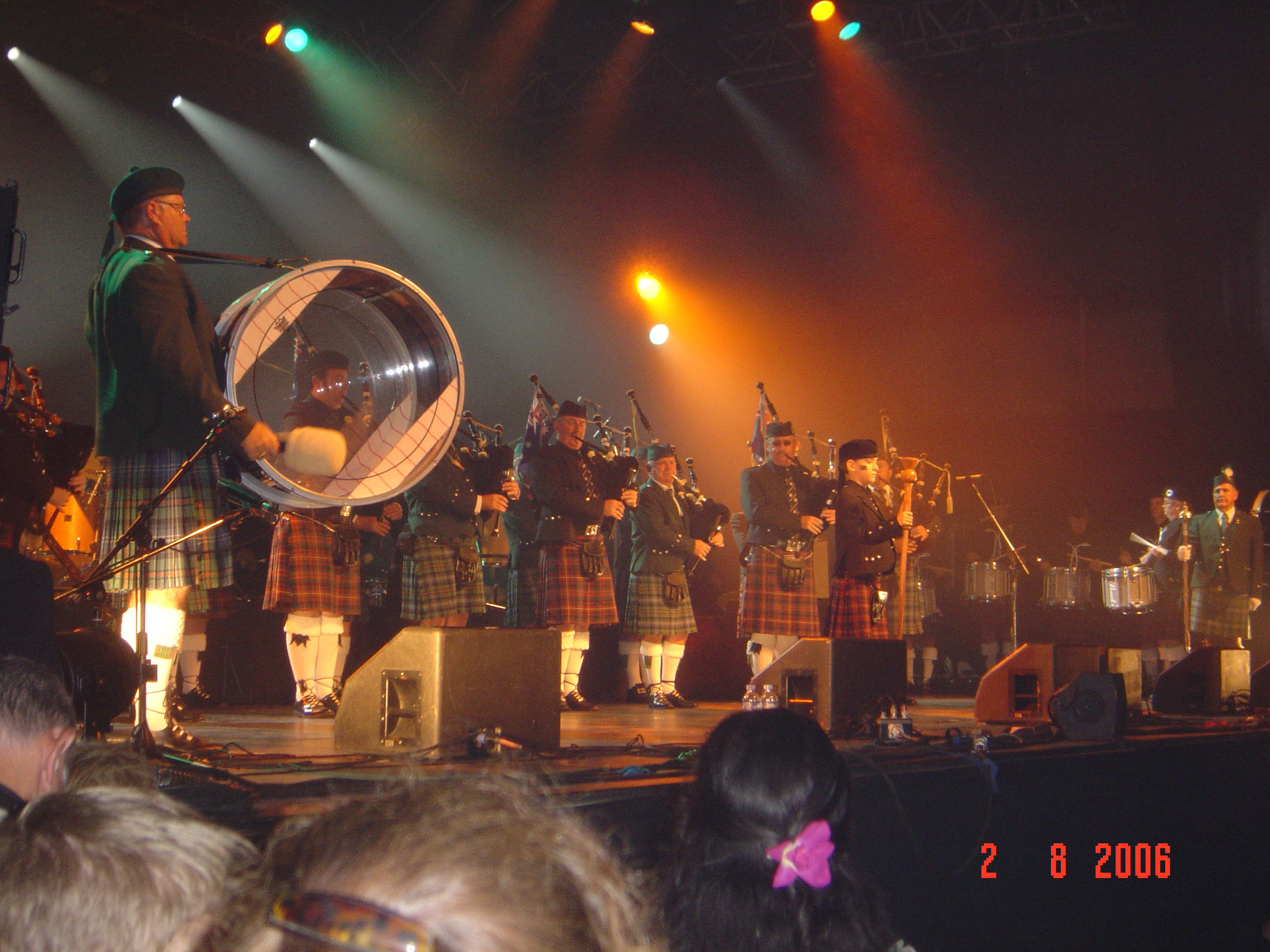 Queensland Irish Association's pipeband during a show in the Interceltic Festival in Lorient, France.